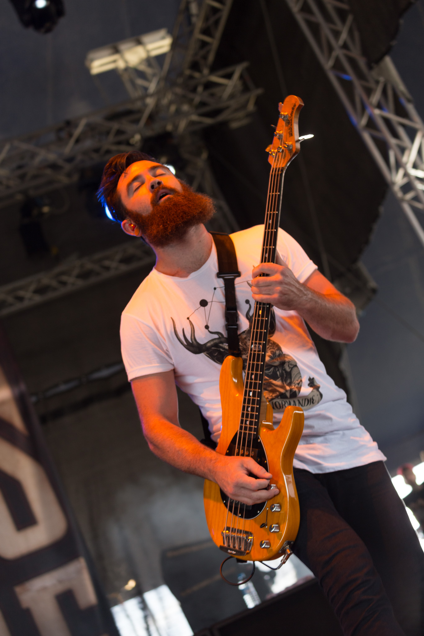 Memphis May Fire performing at the With Full Force Festival, July 2014